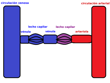 General diagram of a portal venous system